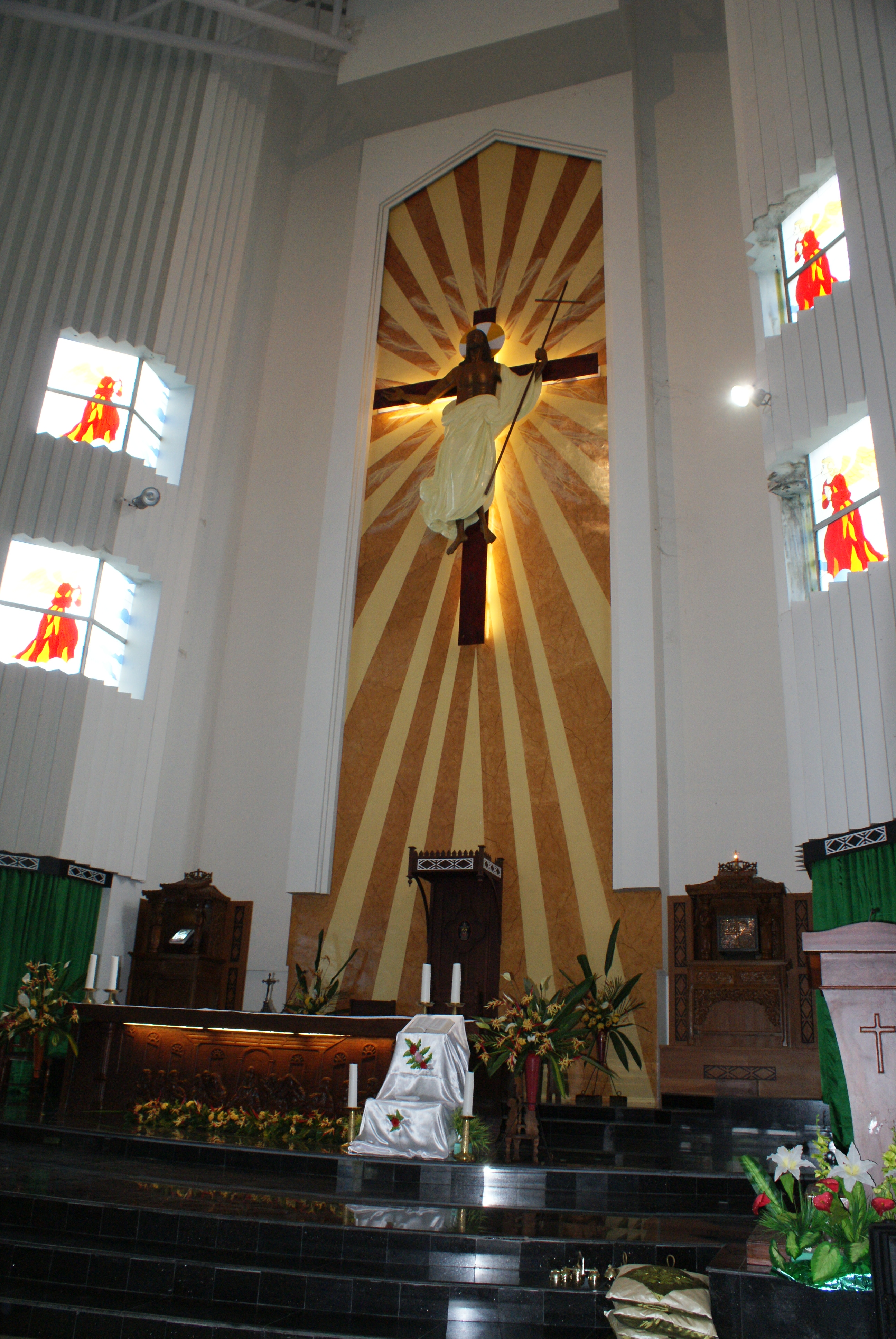 Inside Timika cathedral, Papua.